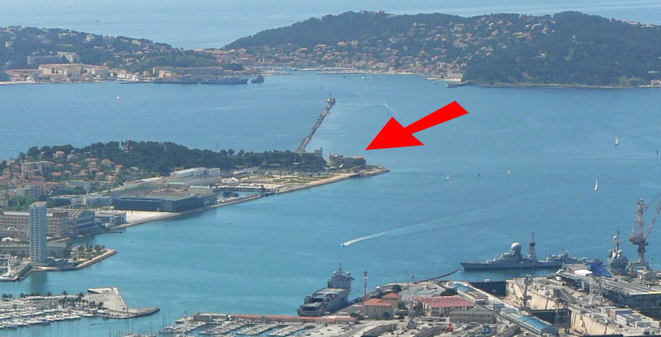 Tour Royale wide view, Toulon